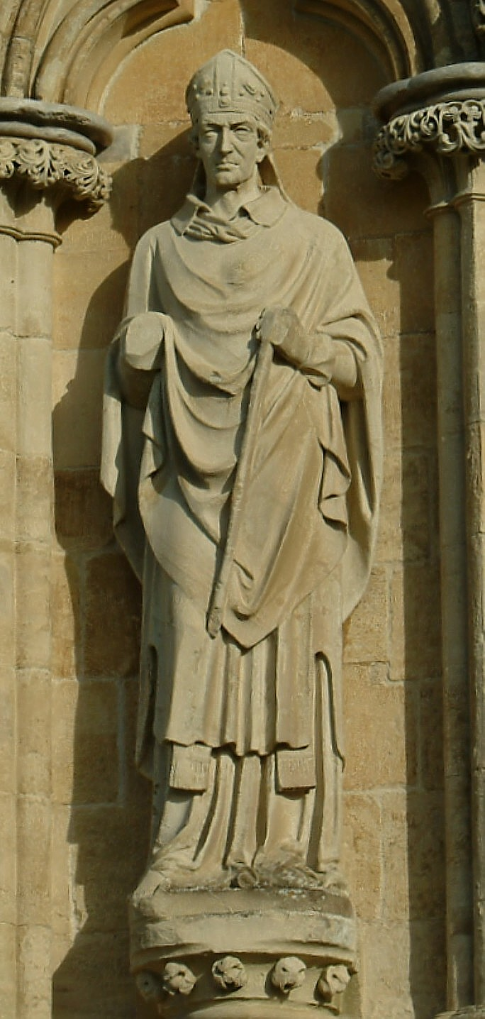 Statue of Bishop Brithwold on the West Face of Salisbury Cathedral, UK.